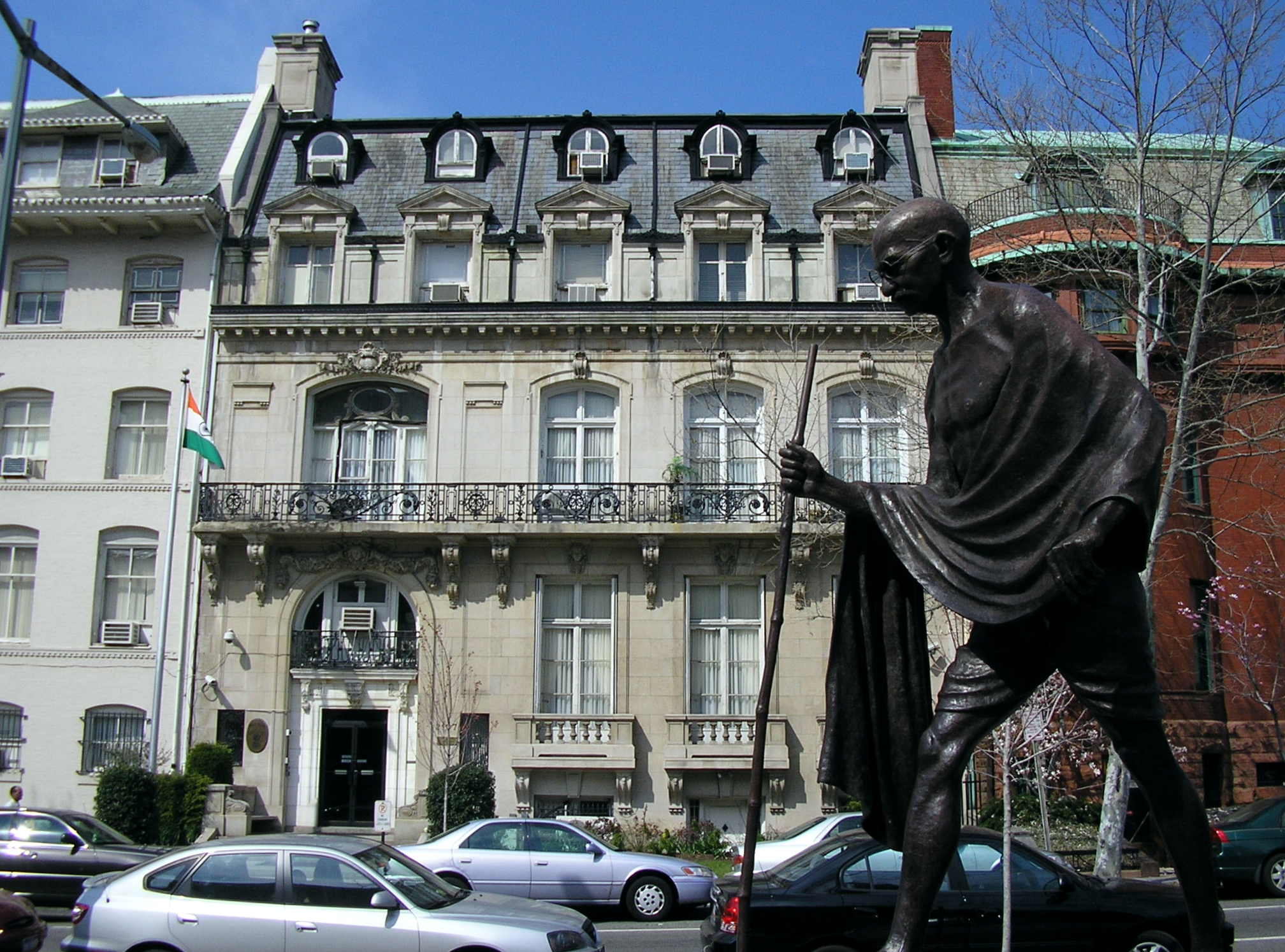 The Embassy of India in Washington DC, with a statue of Gandhi in the foreground.